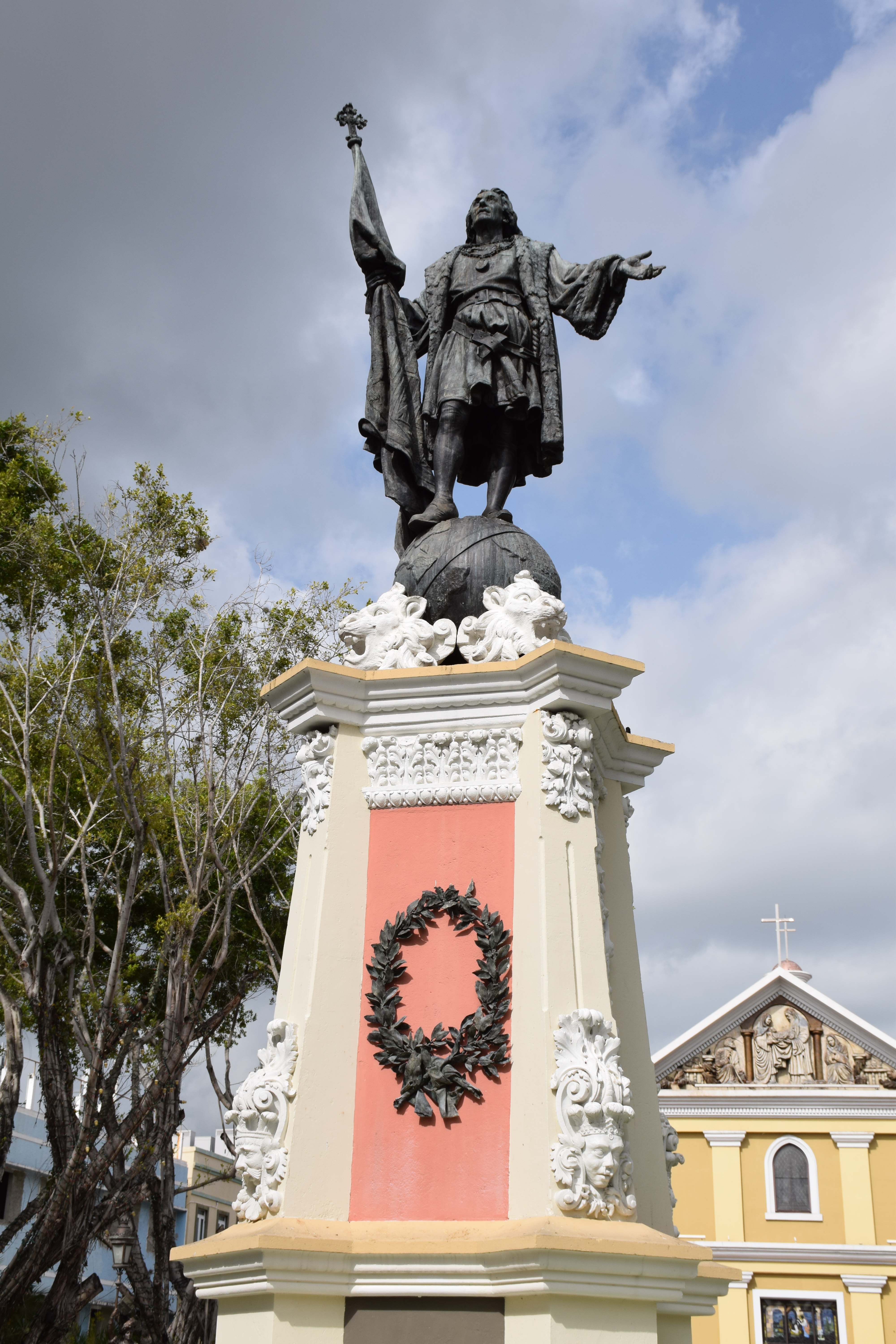 Statue of Christopher Columbus, Plaza Colón, Mayagüez, Puerto Rico.